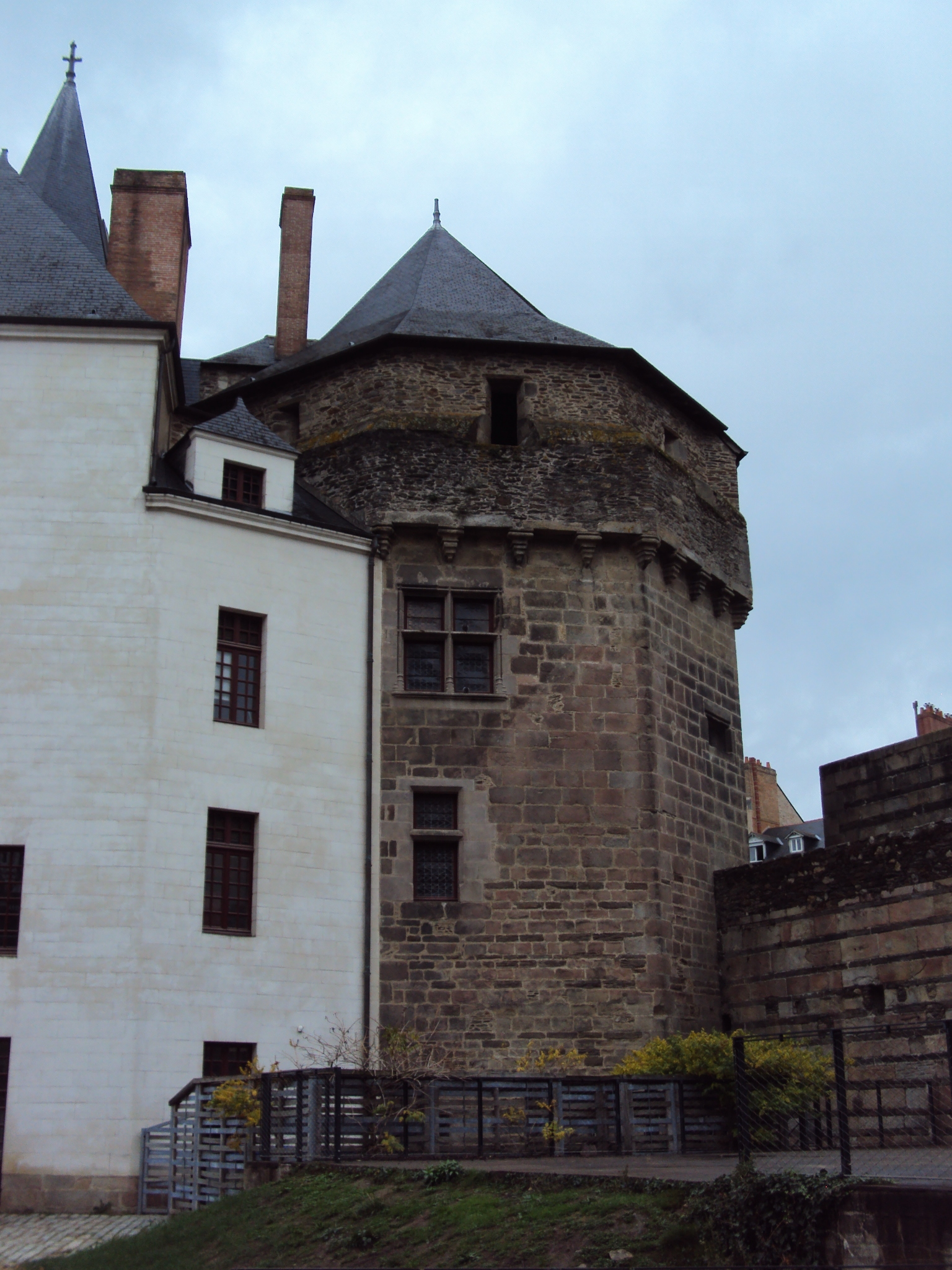 The "Vieux donjon", the oldest part of the Château des ducs de Bretagne, Nantes